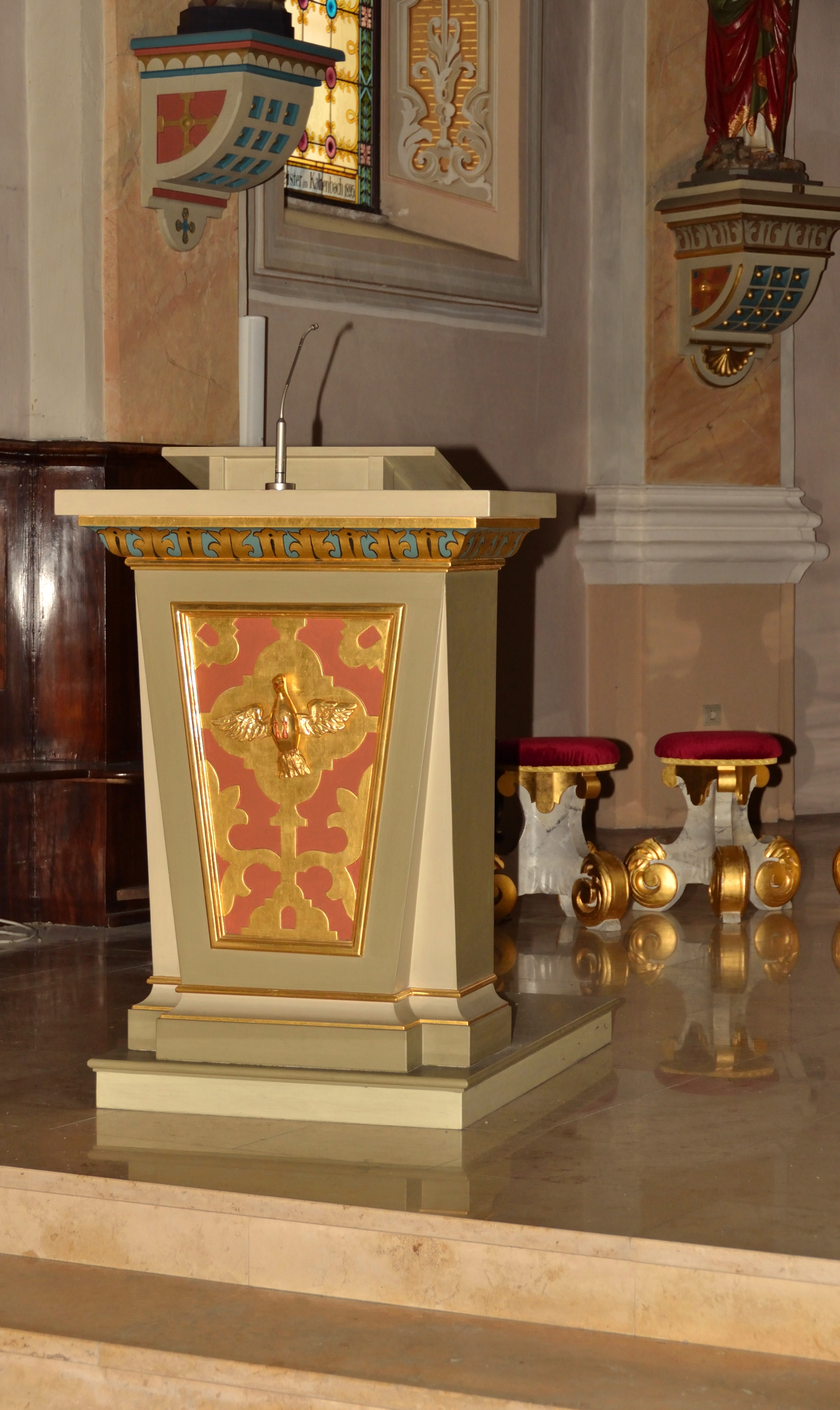 The parish church Saint John the Baptist (hl. Johannes der Täufer) in Ried im Zillertal, Tyrol, was built in 1773-79 and is protected as a cultural heritage monument. Designed and created by company Gebrüder Pescoller.